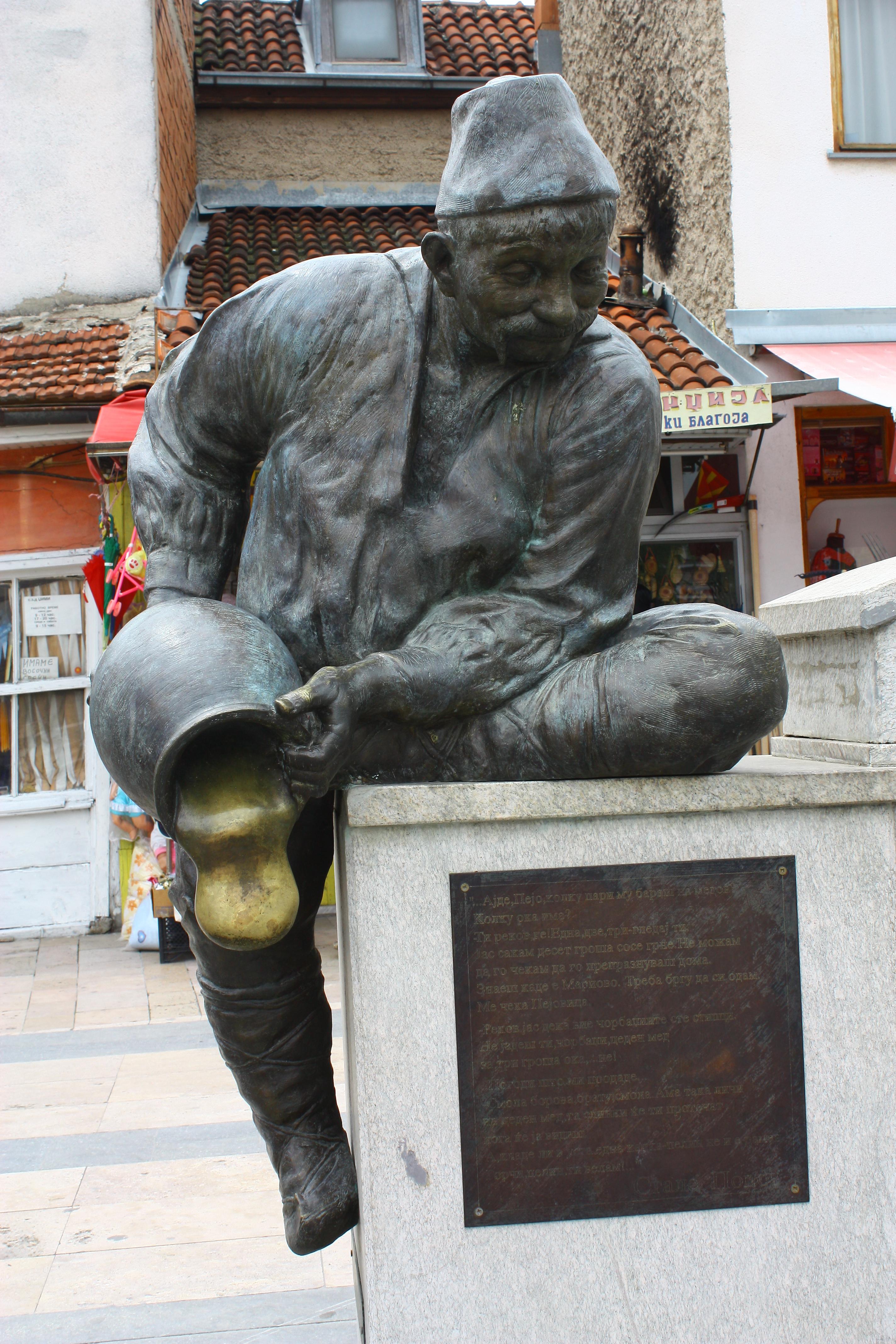 Itar Pejo Munument in Prilep, Macedonia